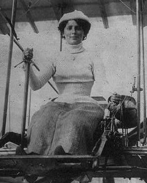 Rosalind Mathilde Franck, facing front. She was an early aviation pioneer holding a 1910 record by flying, non-stop, for 14 miles at Mourmelon, north-east of Paris. She ended her flying career after the August 1, 1910 crash during her exhibition flight at the Boldon Flats which, at the time, were the location of the Boldon Races.